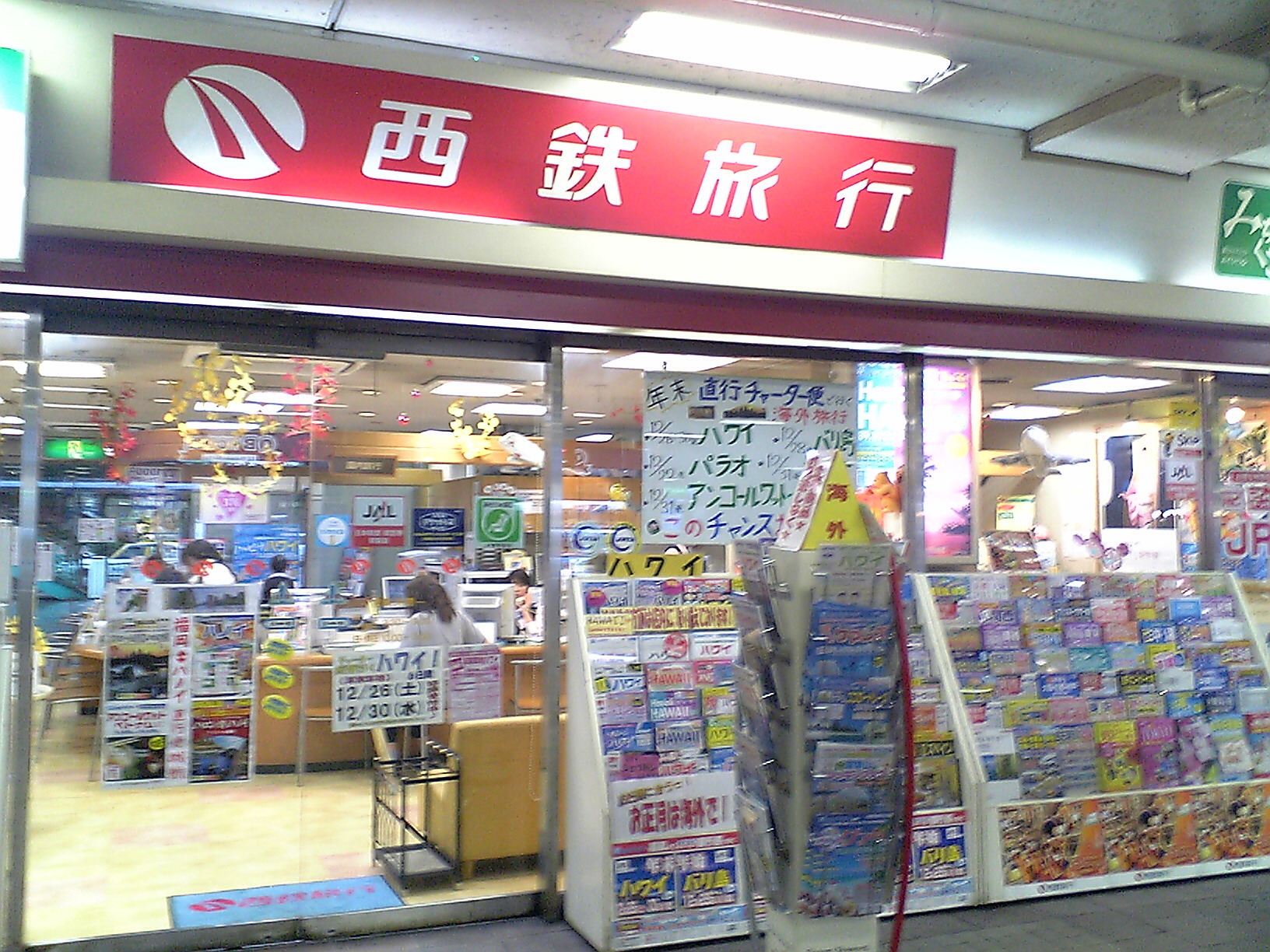 Nishitetsu Travel Kurume Travel Center, in Kurume, Fukuoka